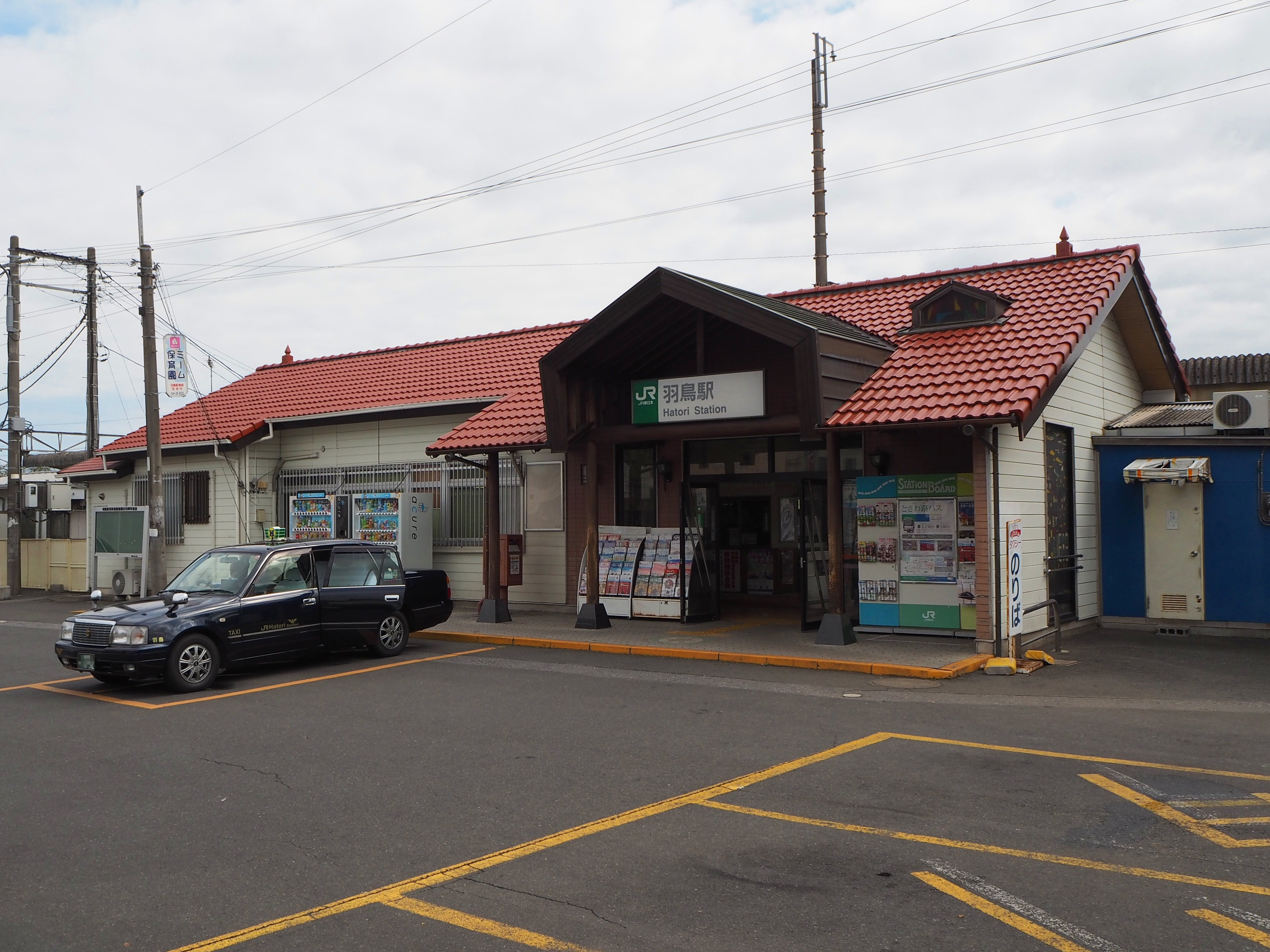 Hatori station